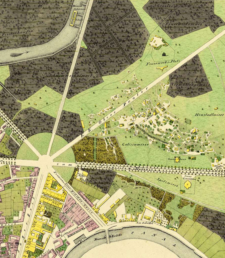 Map of Vienna approx. 1830, Detail (Prater)